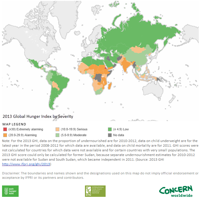 Map with scores of Global Hunger Index scores by severity for 2013